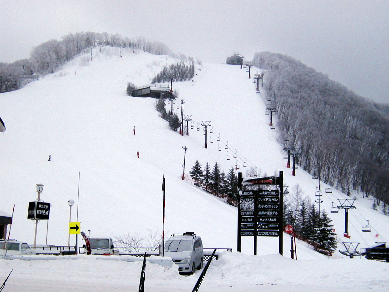 View of Sunvalley Ski Resort.